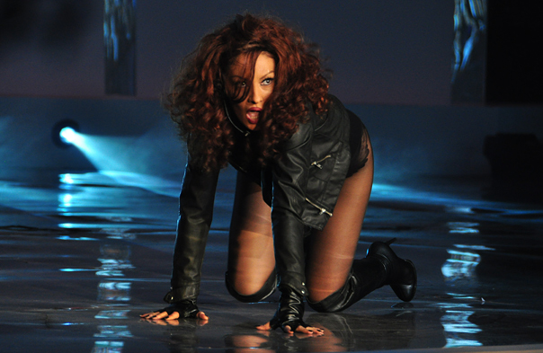 Adelina Ismajli performing at "Kënga Magjike 2009"